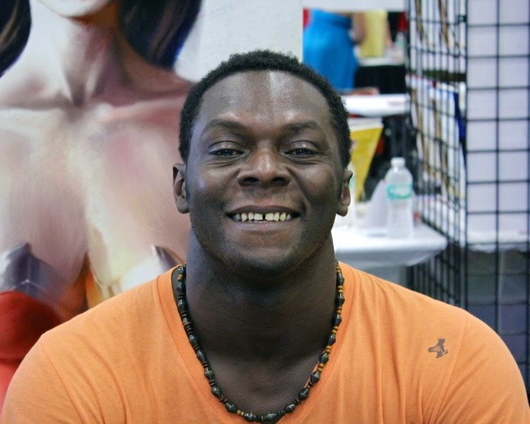 Comics artist Keron Grant at the 2013 Wizard World New York Experience Comic Con in Manhattan.